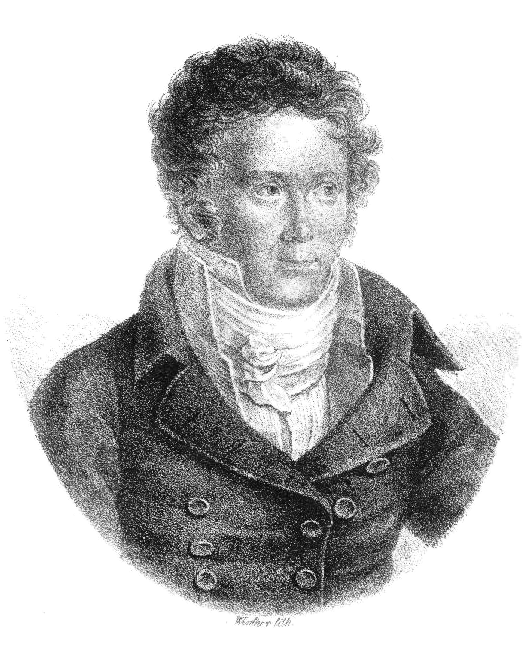 Portrait of Victor-Joseph Étienne de Jouy from a Norwegian translation of his book La morale appliquée à la politique